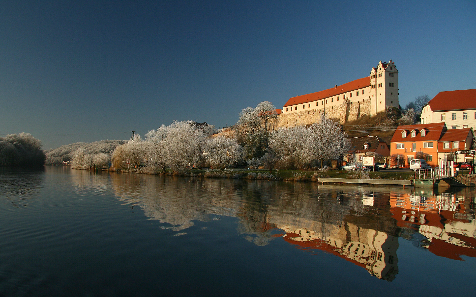 View of Wettin Castle with Saale River in the foreground